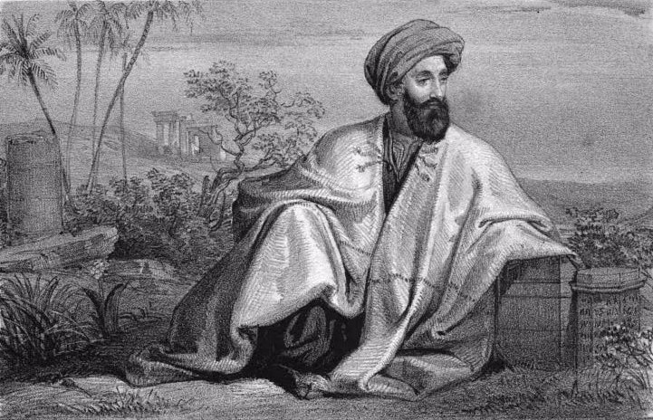 Portrait of Charles Lewis Meryon (1783–1877), English physician and biographer, in Bedouin dress.